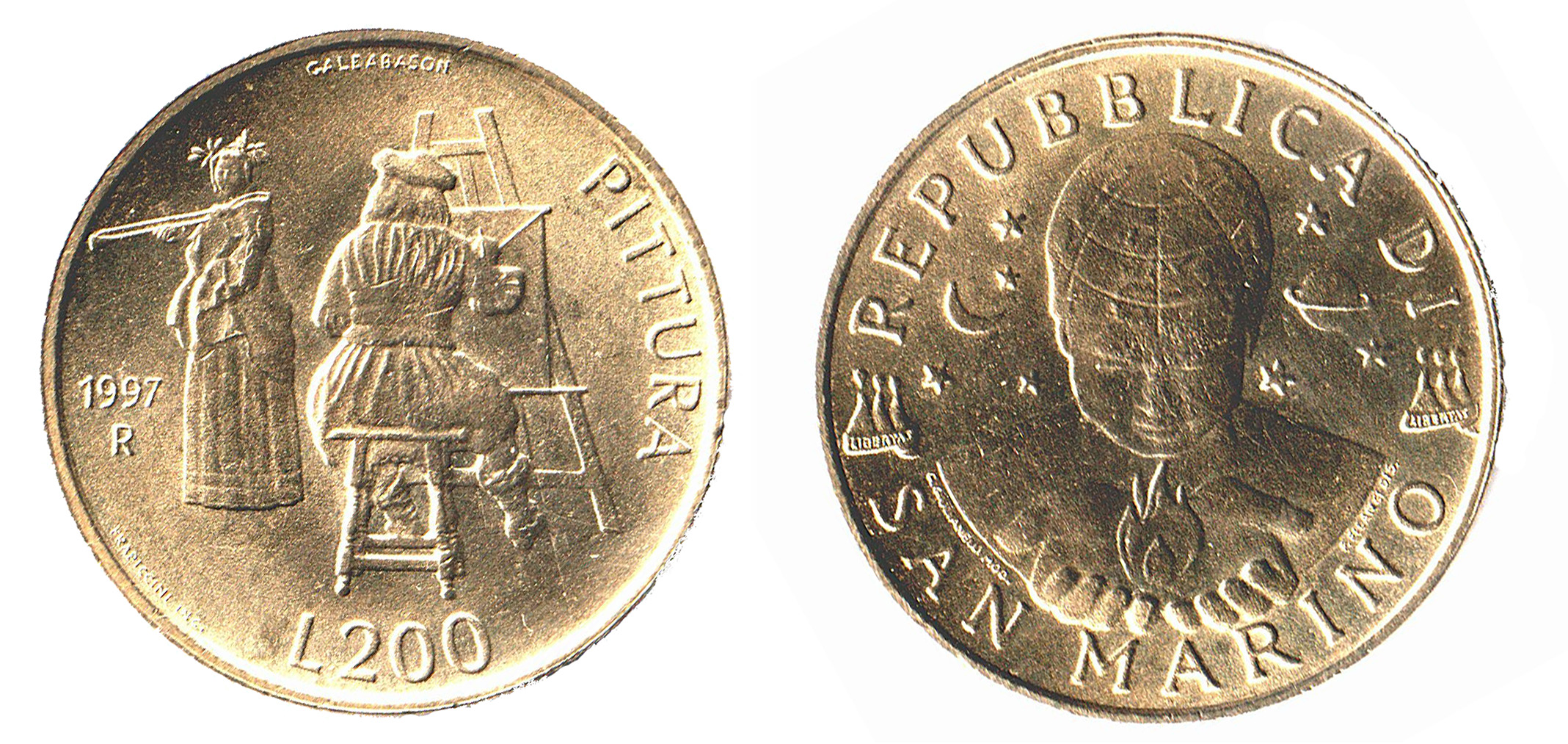 200 lire san marino pittura